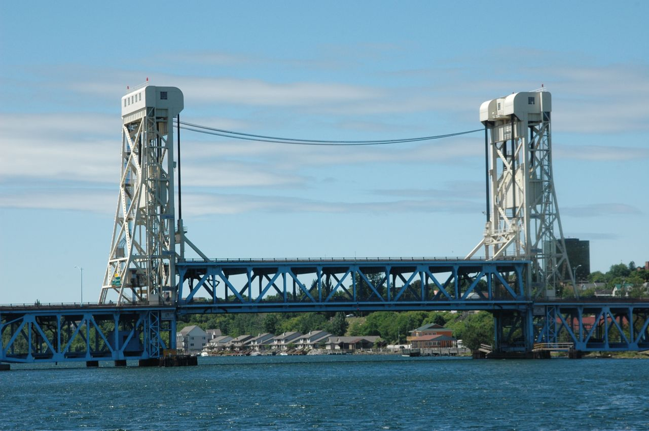 The Portage Lift Bridge between Houghton and Hancock in Michigan, Upper Peninsula